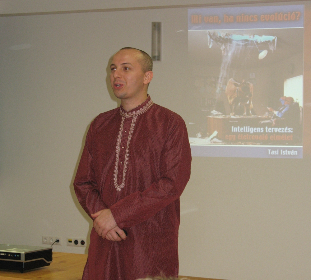 Tasi István (Īśvara-Kŗşņa dāsa), cultural anthropologist, Vaishnava theologian (ISKCON). Presenting his book "Mi van, ha nincs evolúció" (eng.: "What if there is no evolution")